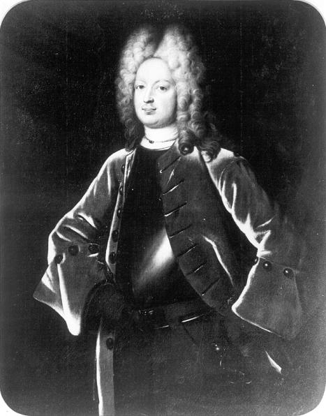 Portrait of Frederick, Duke of Saxe-Weissenfels-Dahme (1673-1715)